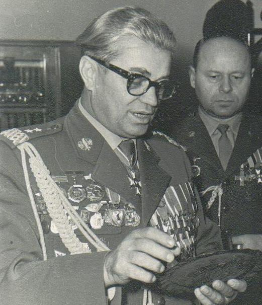 Polish General Czesław Waryszak (1919-1979)